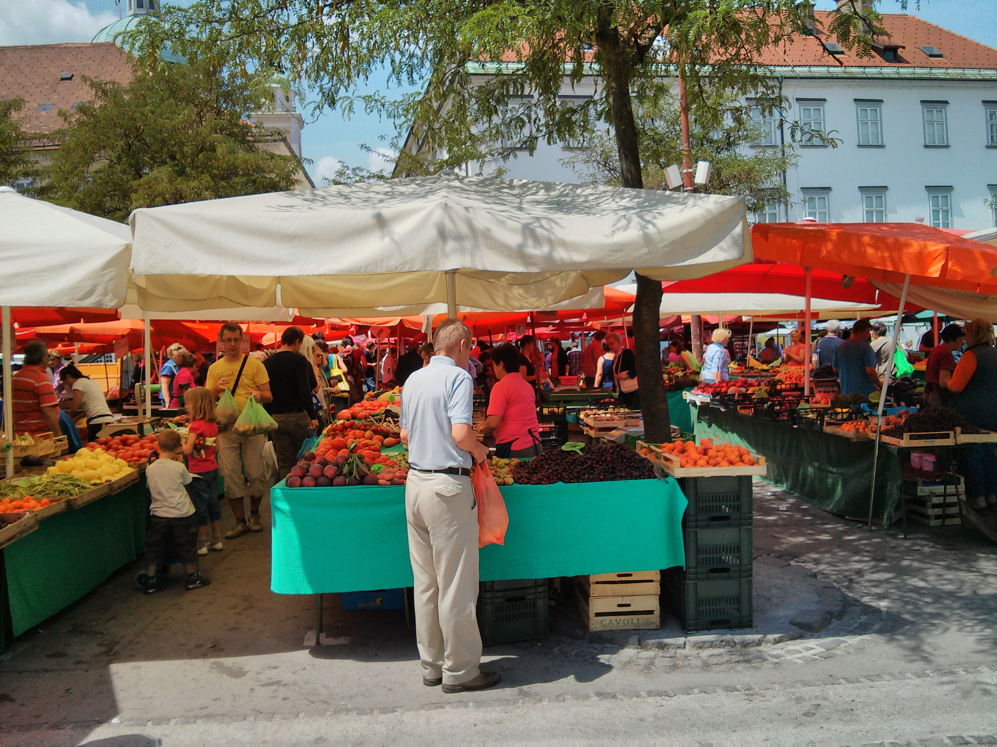 Although I'm guessing they just refer to it as a market.